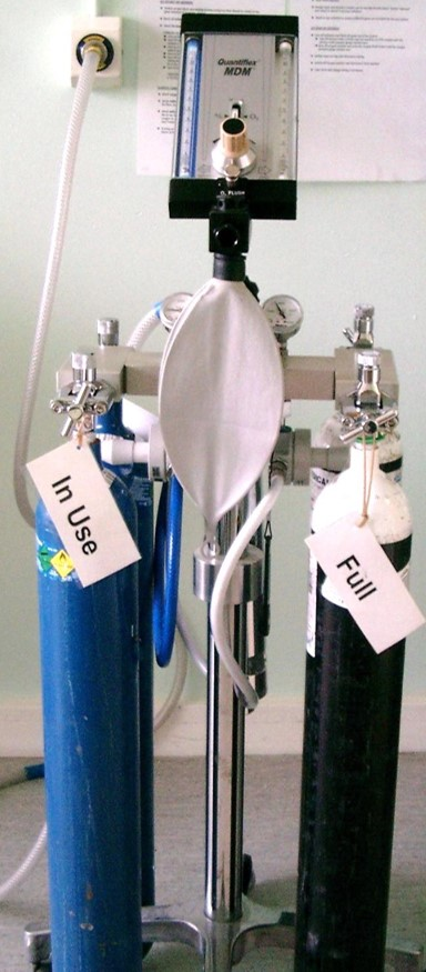 Quantiflex machine with oxygen & nitrous oxide tank and reservoir bag